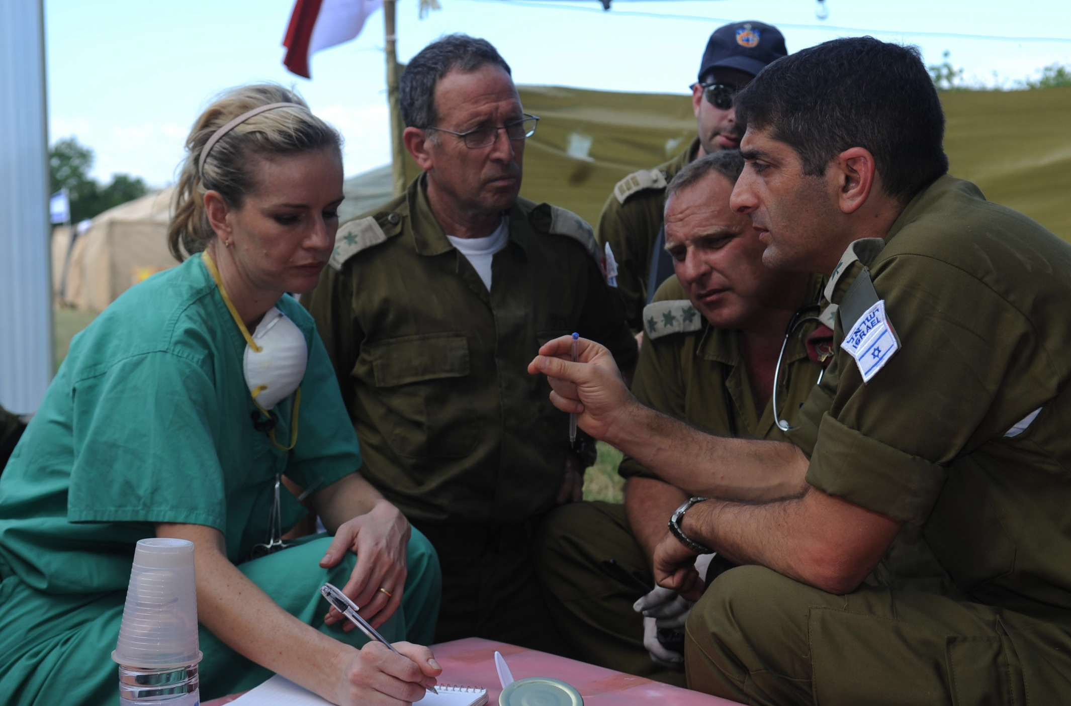 January 17, 2010. Dr. Jennifer Lee Ashton, an American doctor working at a UN Medical Facility is pictured during a meeting with Doctor Colonel Itzik Kryce, commander of the Israel Defense Forces field hospital in Haiti. The two discuss the cooperation and coordination between the different aid delegations. After the devastating earthquake which struck Haiti in January 2010, Israel sent an aid delegation of over 250 personnel to help with search and rescue efforts and establish a field hospital in Port-au-Prince.